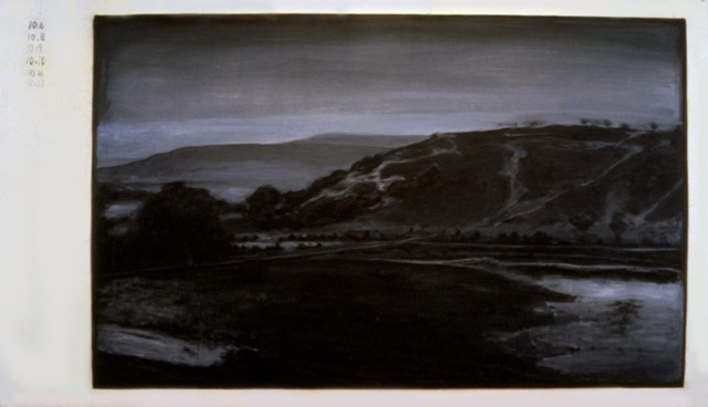 Appropriated Memories: San Juan Hill, Cuba 48″ x 84″ x 4″ Oils on Plaster Collection of the Frost Art Museum, Florida International University, Miami, FL, Painting of San Juan Hill.